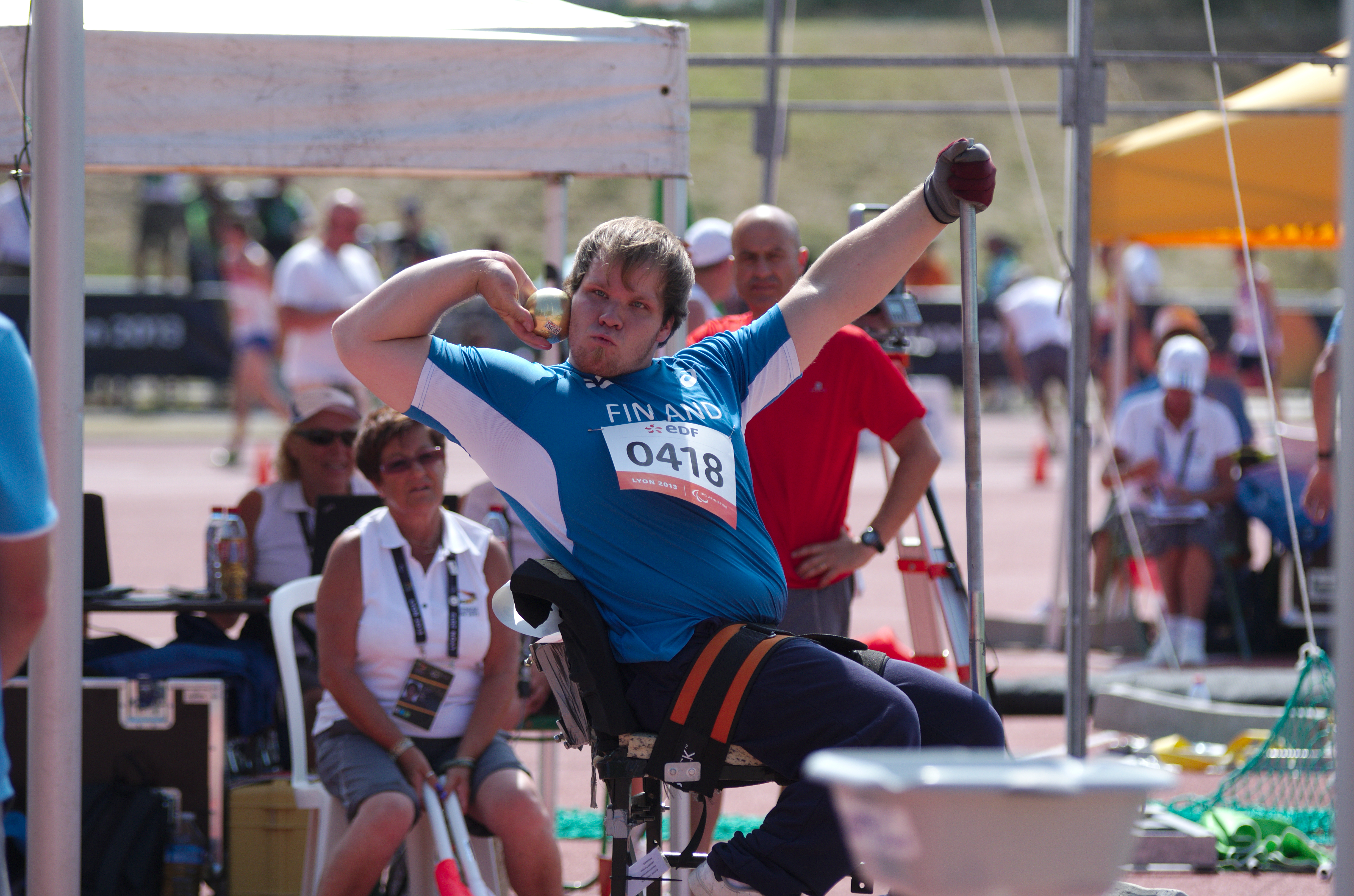 Aleksi Kirjonen of Finland during the Men's Shot put - F56-57